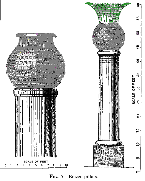 An illustration from the Encyclopaedia Biblica, a 1903 publication which is now in the public domain. Fig. 5 for article "Temple". Image of the two alternative interpretatins of the biblical descriptions of Jachin and Boaz, the brazen pillars in the Temple of Solomon. On the left, the capitals terminate 'lily-style' On the right, each capital is a depiction of a lily 'lily' here refers to the oriental lilies - with the distinct 'turban' style shape of the flowers - see File:Lilium duchartrei.jpg, for example.